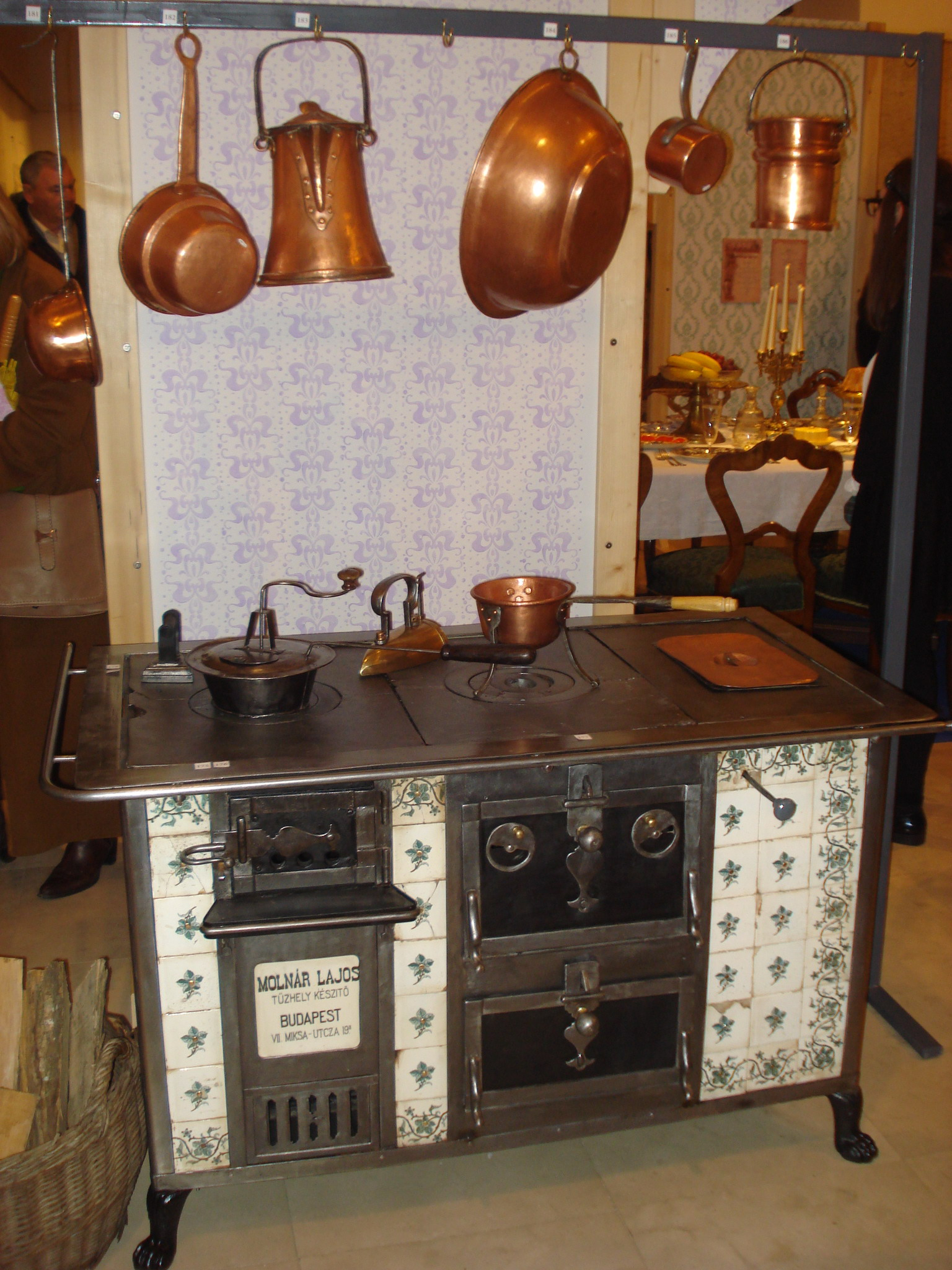 Night of museums 2015. in Čakovec (Croatia) - old cooker from the 19th centuryHrvatski: Noć muzeja 2015. u Čakovcu (Hrvatska) - stari štednjak iz 19. stoljeća